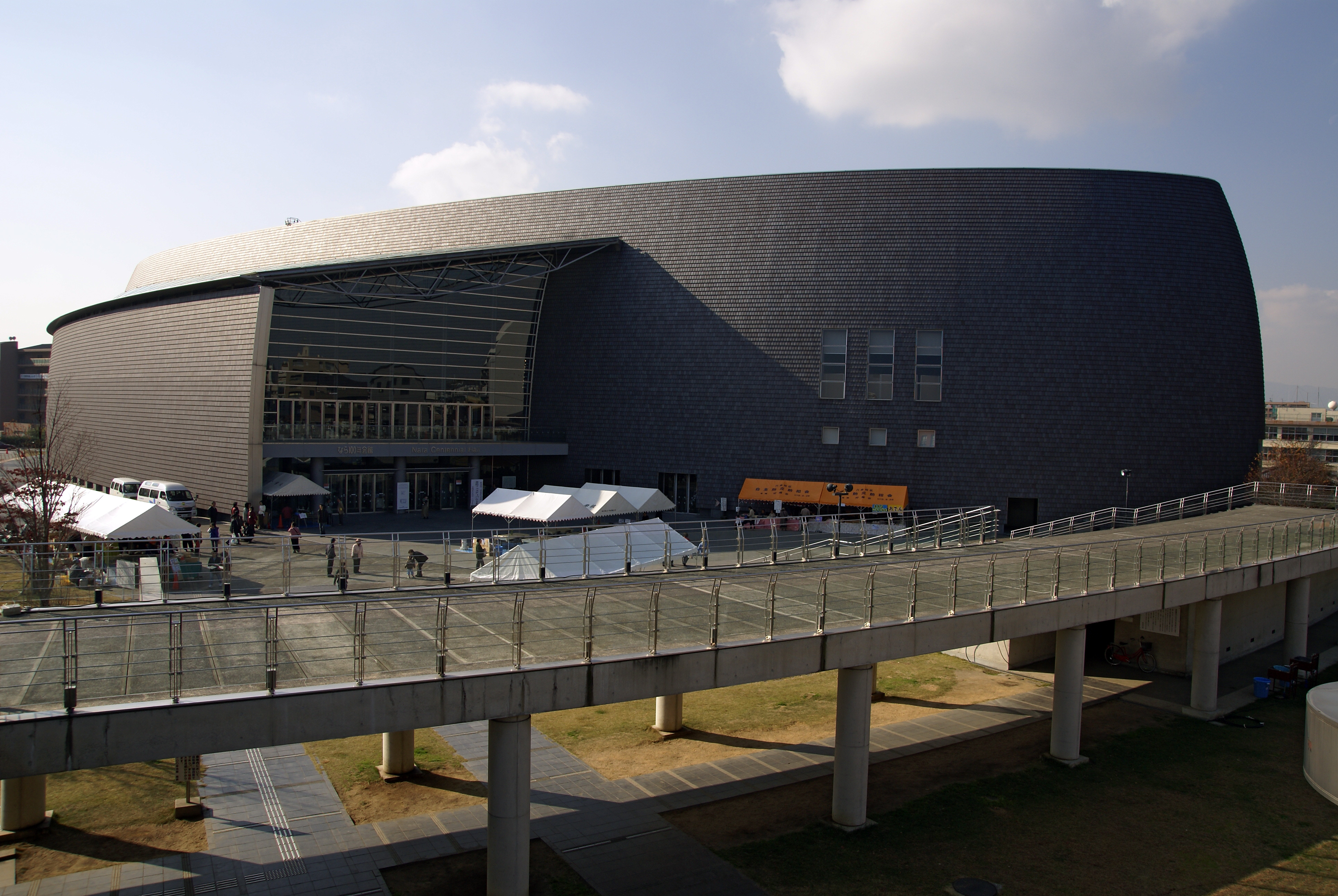 Nara Centennial Hall in Nara, Nara prefecture, Japan